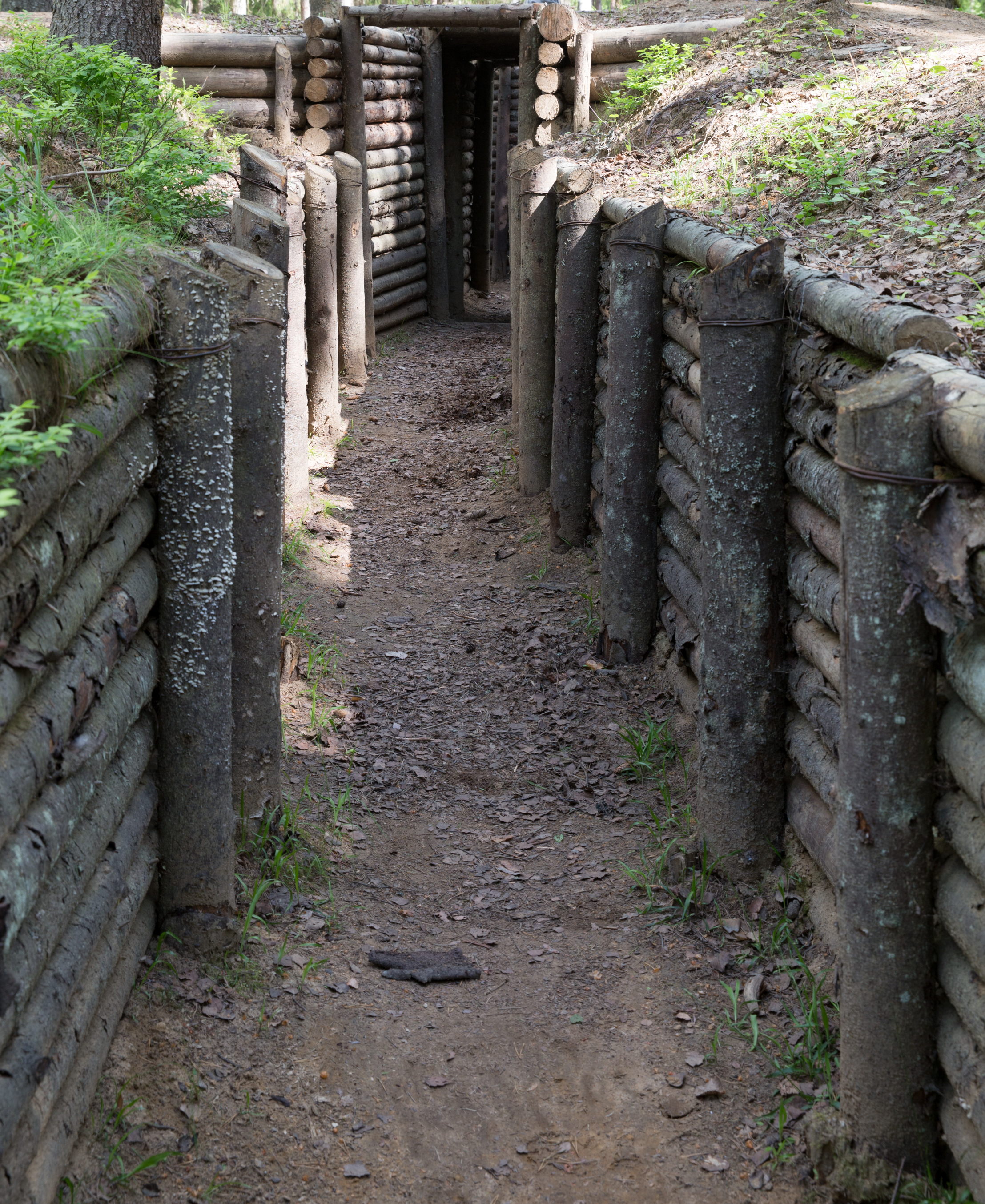 Trench of Kuuterselkä battle, Roshchino, Leningradskaya oblast